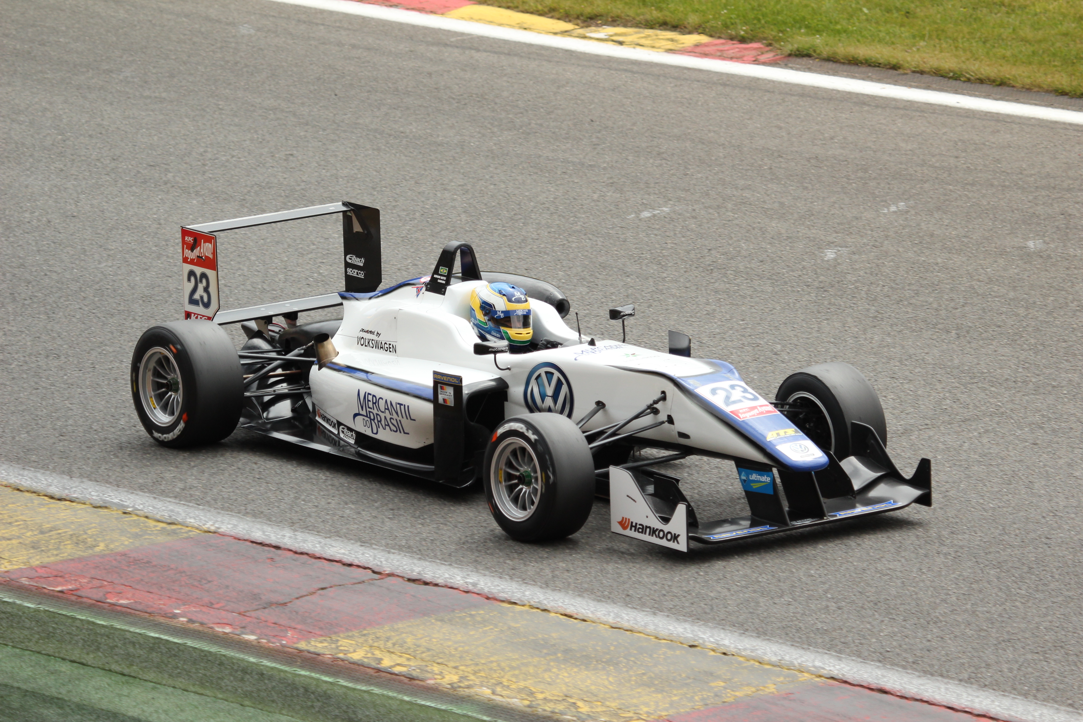 Sergio Sette Camara at Spa in 2015, European Formula 3 Championship